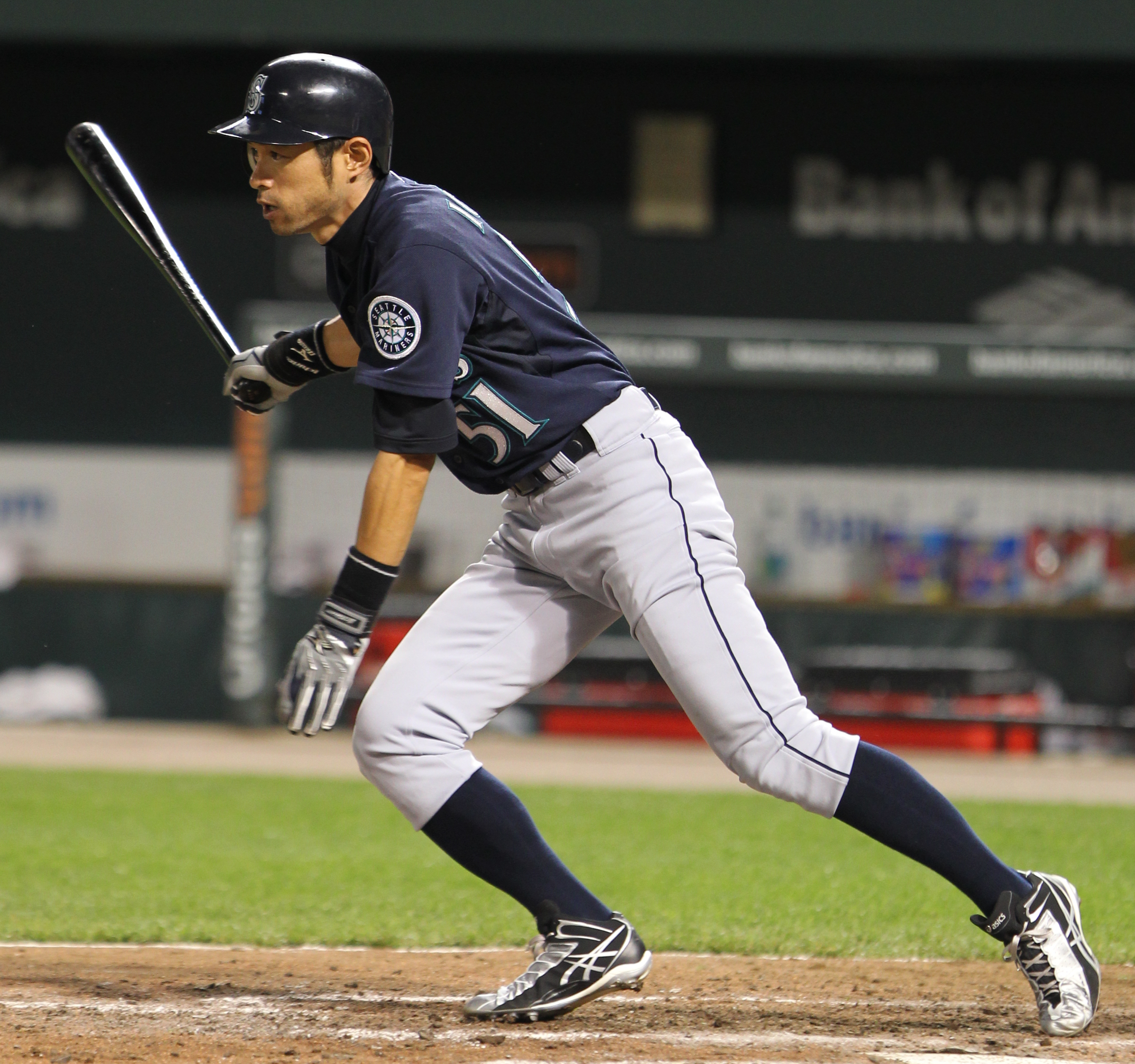 Seattle Mariners right fielder Ichiro Suzuki (51) in action against the Baltimore Orioles on May 10, 2011 at Oriole Park at Camden Yards in Baltimore.